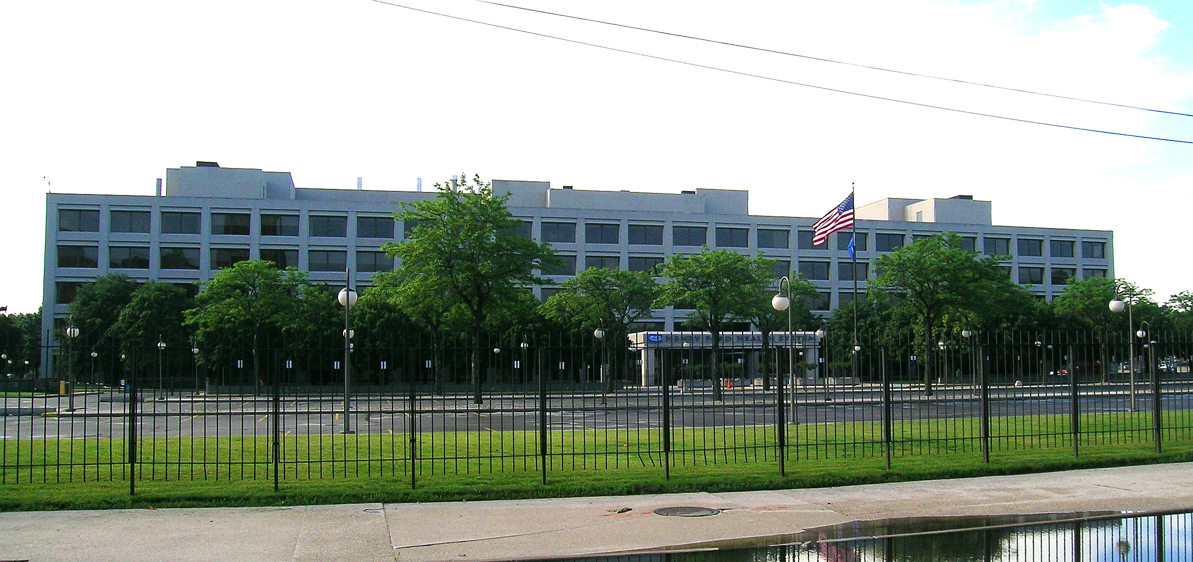 The headquarters of the Henry Ford Health System (HFHS) in June 2008, located at Second and Burroughs, in Detroit, Michigan.